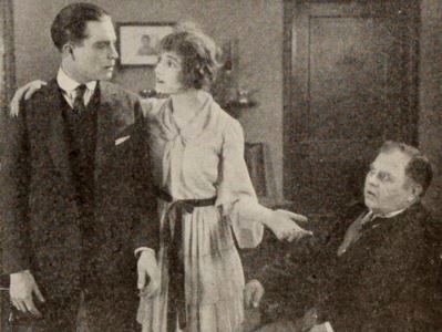 Still from the American comedy romance film Good Night, Paul (1918) with Harrison Ford, Constance Talmadge, and John Steppling, on page 25 of the July 6, 1918 Exhibitors Herald.